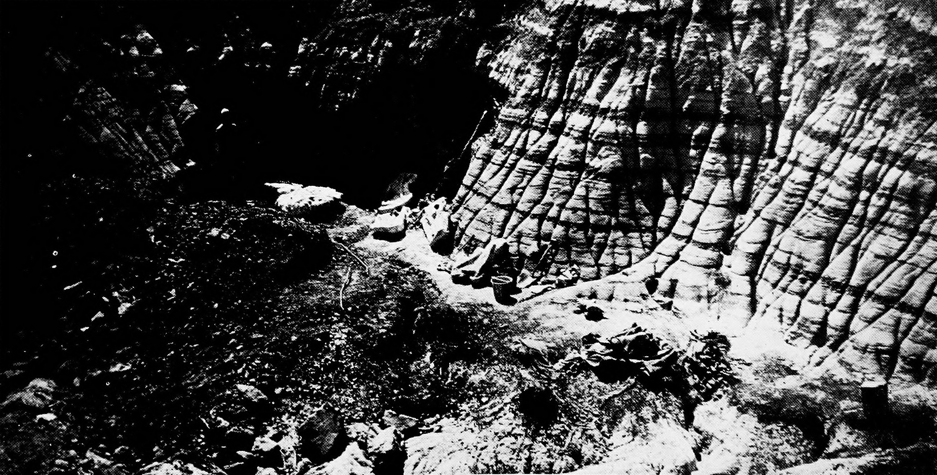 Title: Hunting dinosaurs in the bad lands of the Red Deer River, Alberta, Canada; a sequel to The life of a fossil hunter Year: 1917 (1910s) Authors: Sternberg, Charles H. (Charles Hazelius), b. 1850 Subjects: Paleontology; Dinosaurs Publisher: Lawrence, Kan. , C. H. Sternberg Text Appearing Before Image: ' Text Appearing After Image: '